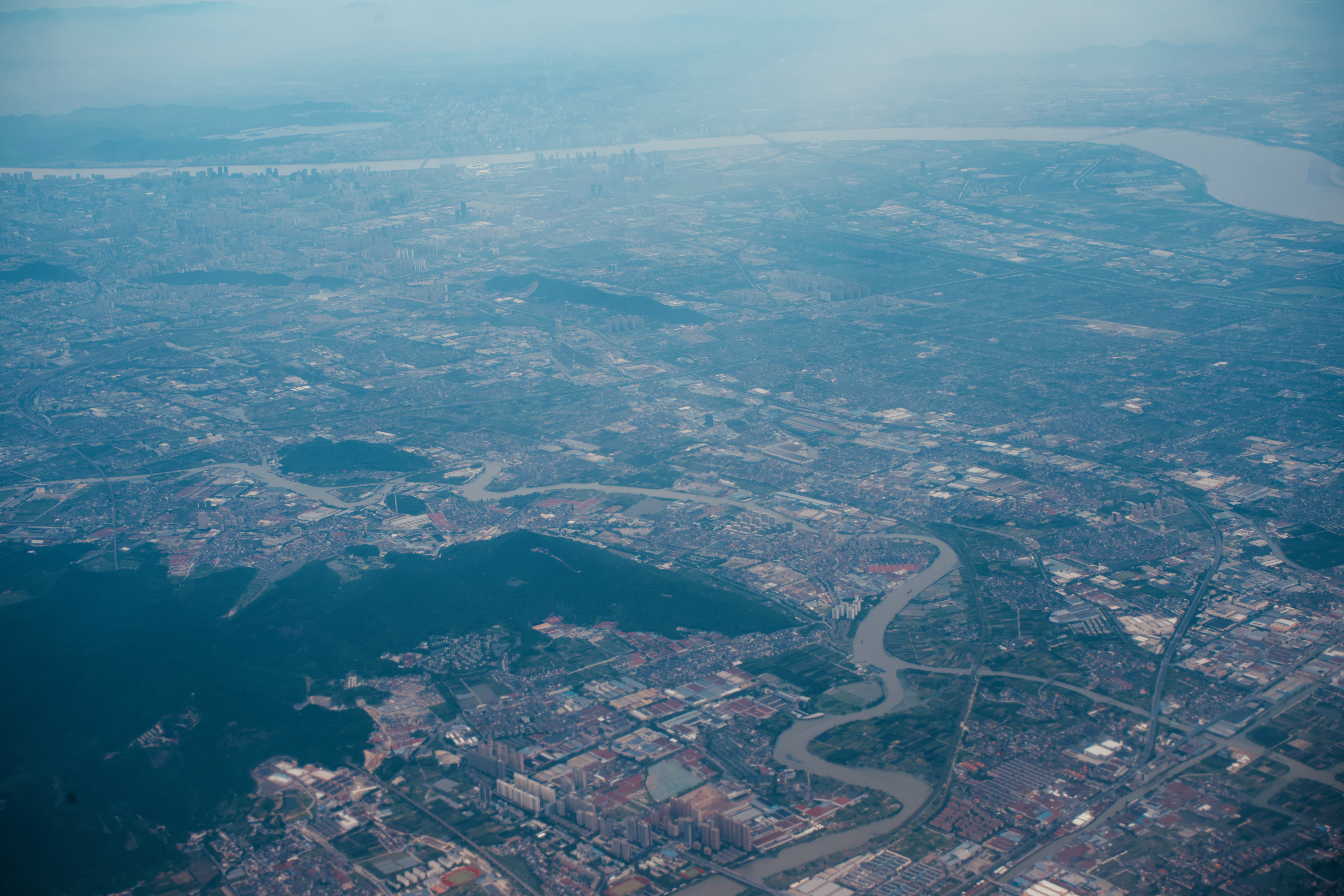 The Xixiao River (Chinese: 西小江, literally West Little River) partly divides Hangzhou City and Shaoxing City, which are both cities in Zhejiang, China. The river is on the down middle of the picture, which winds itself across the area. Keqiao Dist. (柯桥区), Shaoxing is mostly on the left, while Xiaoshan Dist. (萧山区), Hangzhou is mostly on the right. On the very far end of the picture, there lies a larger River, which is Qiantang River (钱塘江). The picture was taken on the plane from Hangzhou Xiaoshan Airport.